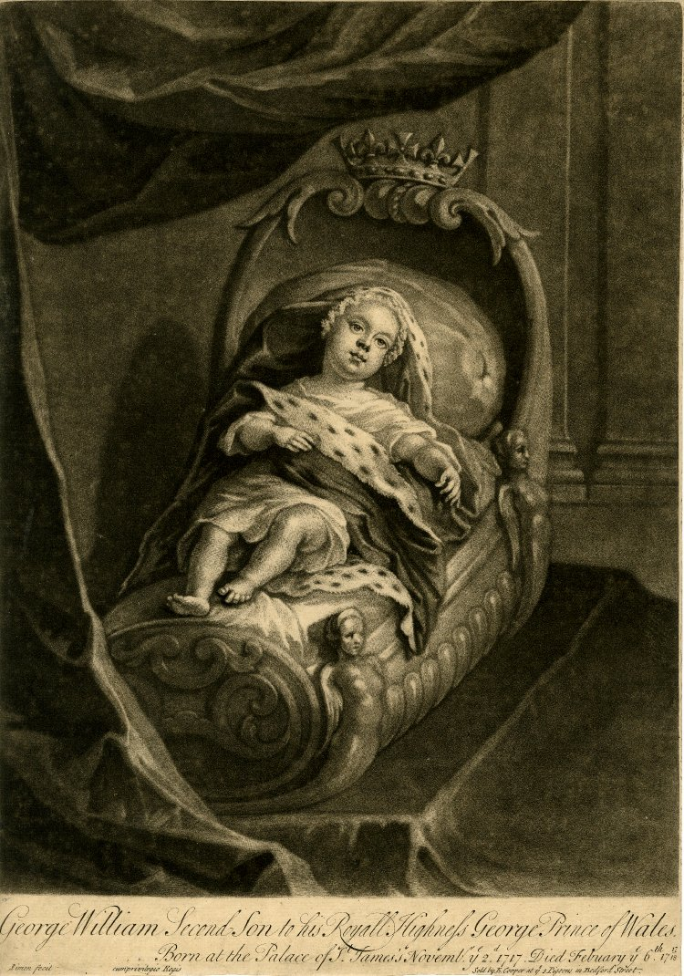 Portrait as a baby seen whole-length wrapped in ermine cloak lying in ornate cradle on low platform beneath curtain.